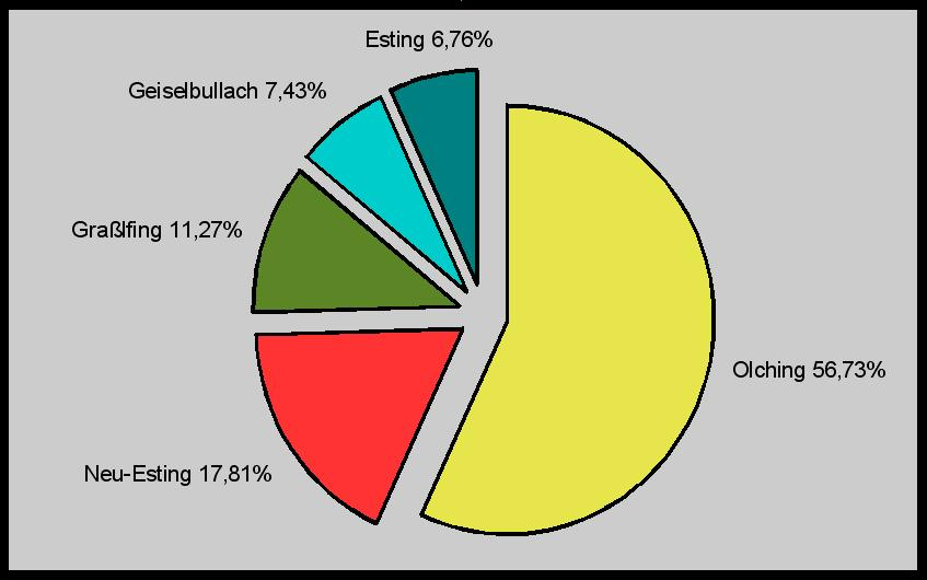 Make up of the Municipality of Olching, Individual communities by percent